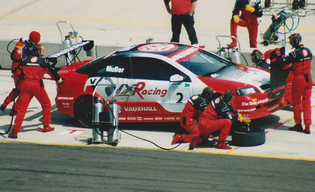 BTCC 2003 Rockingham - Yvan Muller pitting in the Vauxhall Astra